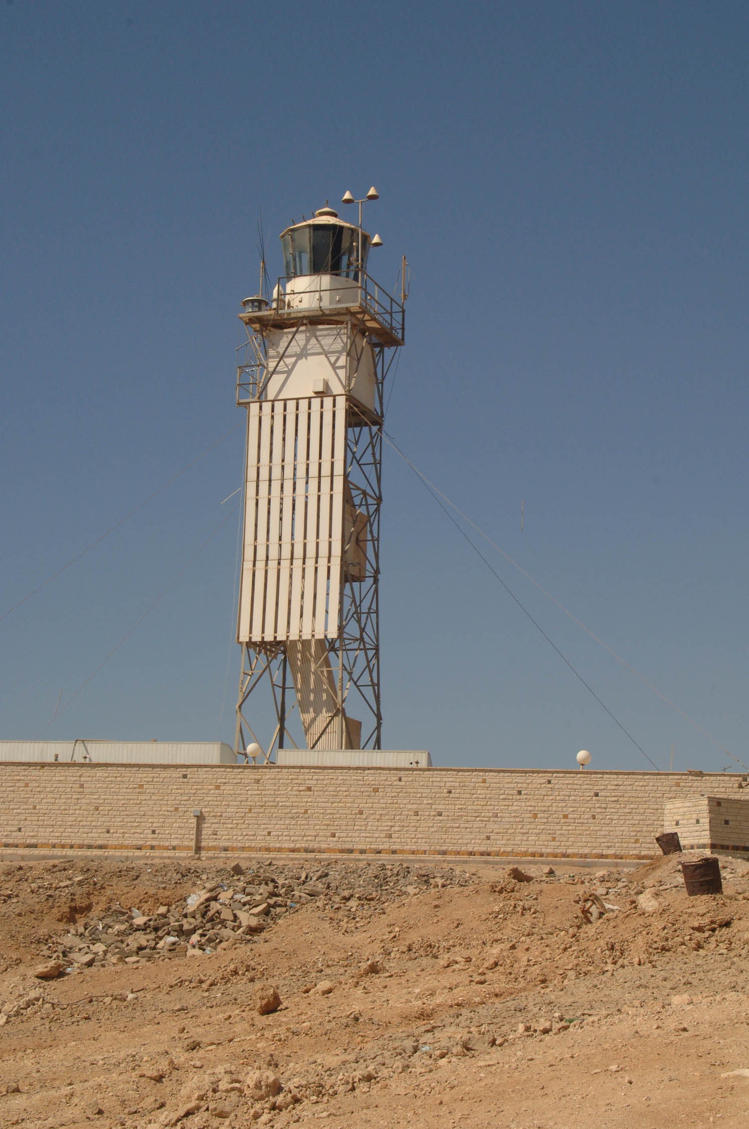 RAS UM SID POINT LIGHTHOUSE. THE AREA AROUND THIS POINT HAS A FINE BEACH AND IS NOTED FOR DIVING ON THE REEF OFFSHORE